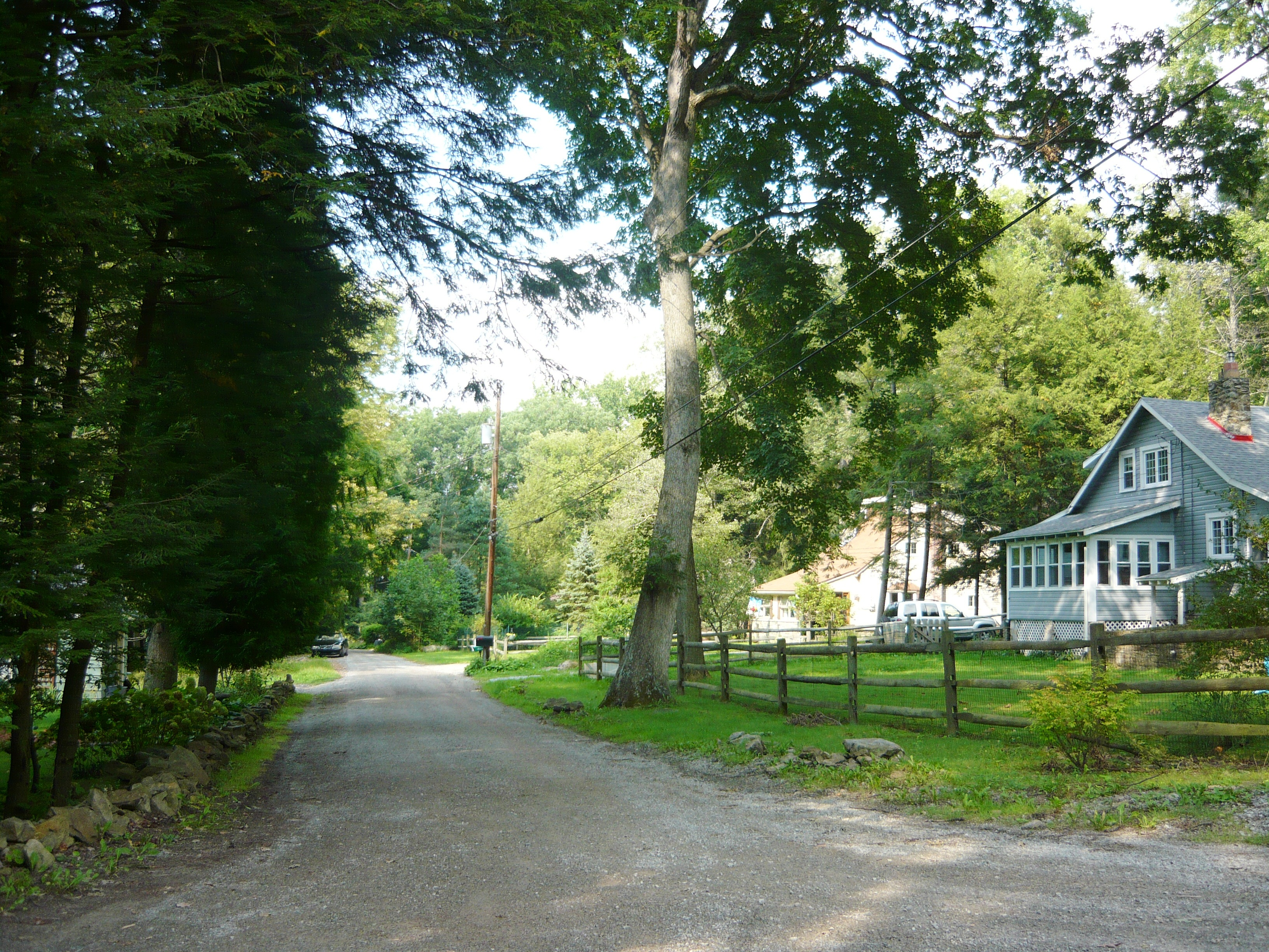 Looking north on Locust Street from White Oak Road, Borough of Laurel Mountain, Westmoreland County, Pennsylvania.